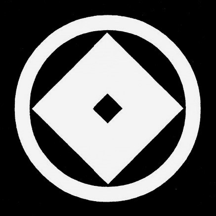 Crest of Tanaka of Kurume